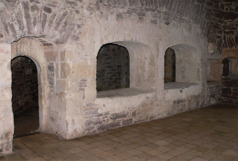 Doune Castle (Scotland) - kitchen (detail)